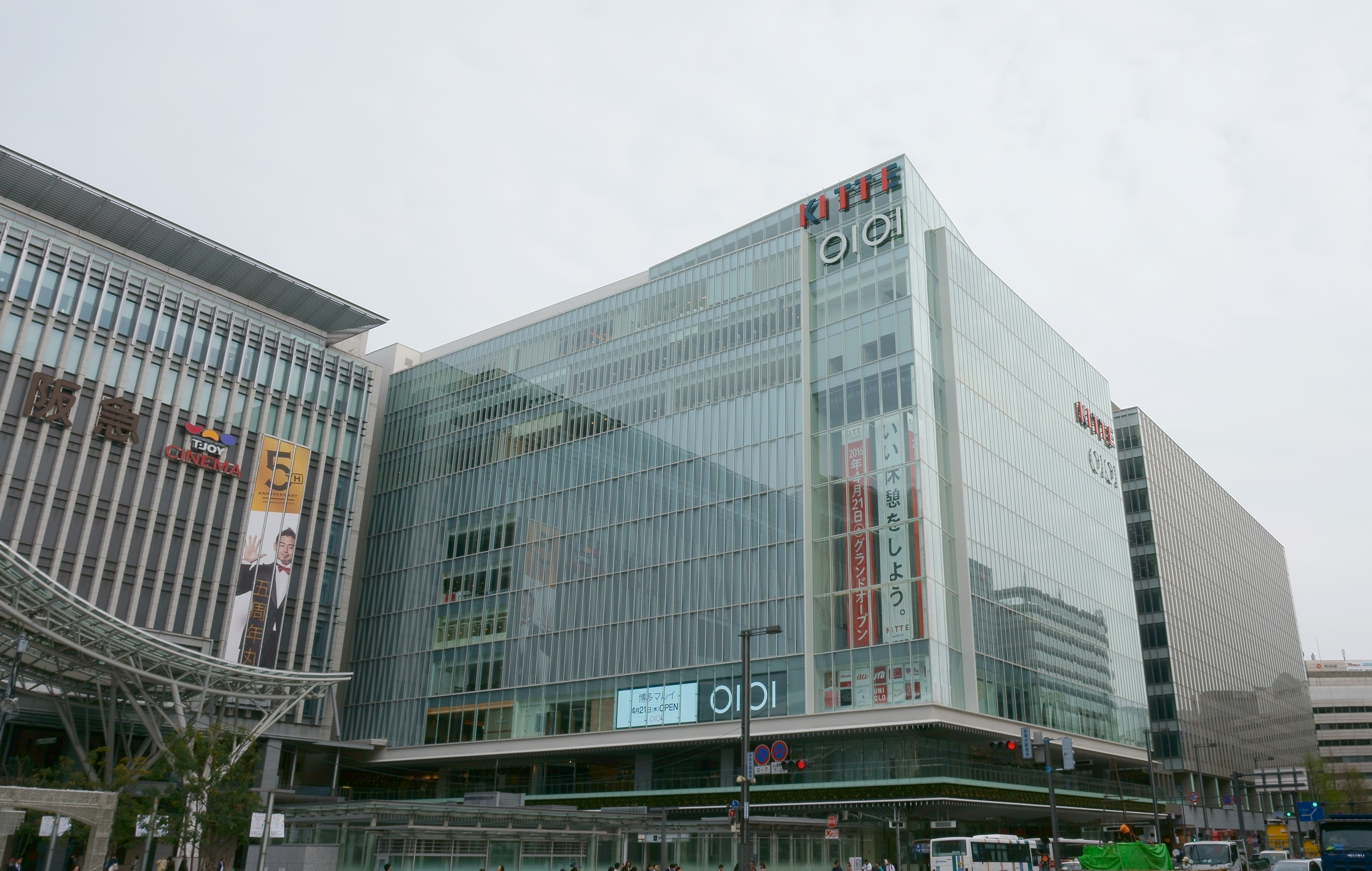 The KITTE-Hakata building and its neighbour JRJP-Hakata building, Fukuoka, Japan, April 5, 2016